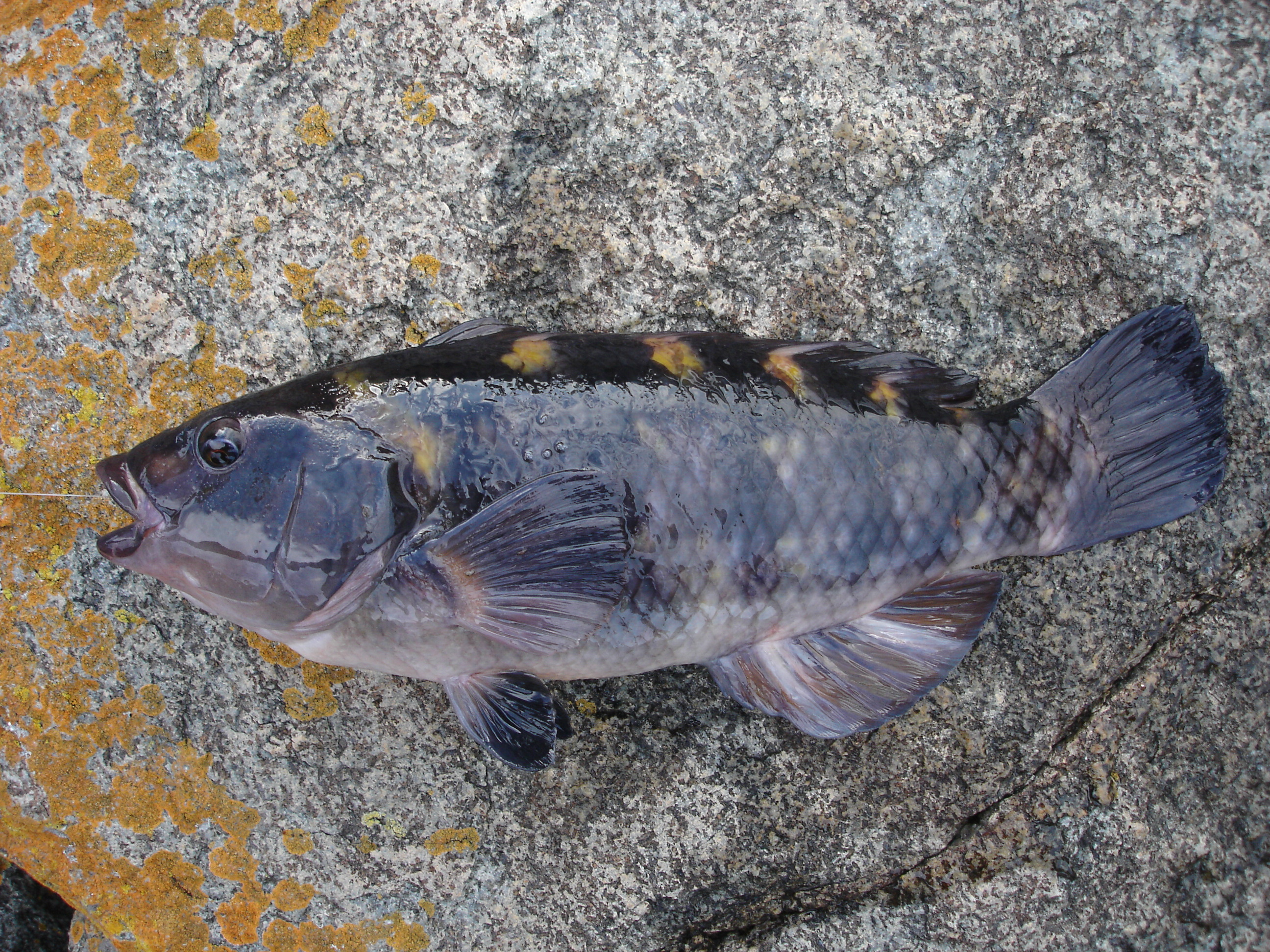 Notolabrus fucicola (Richardson, 1840)